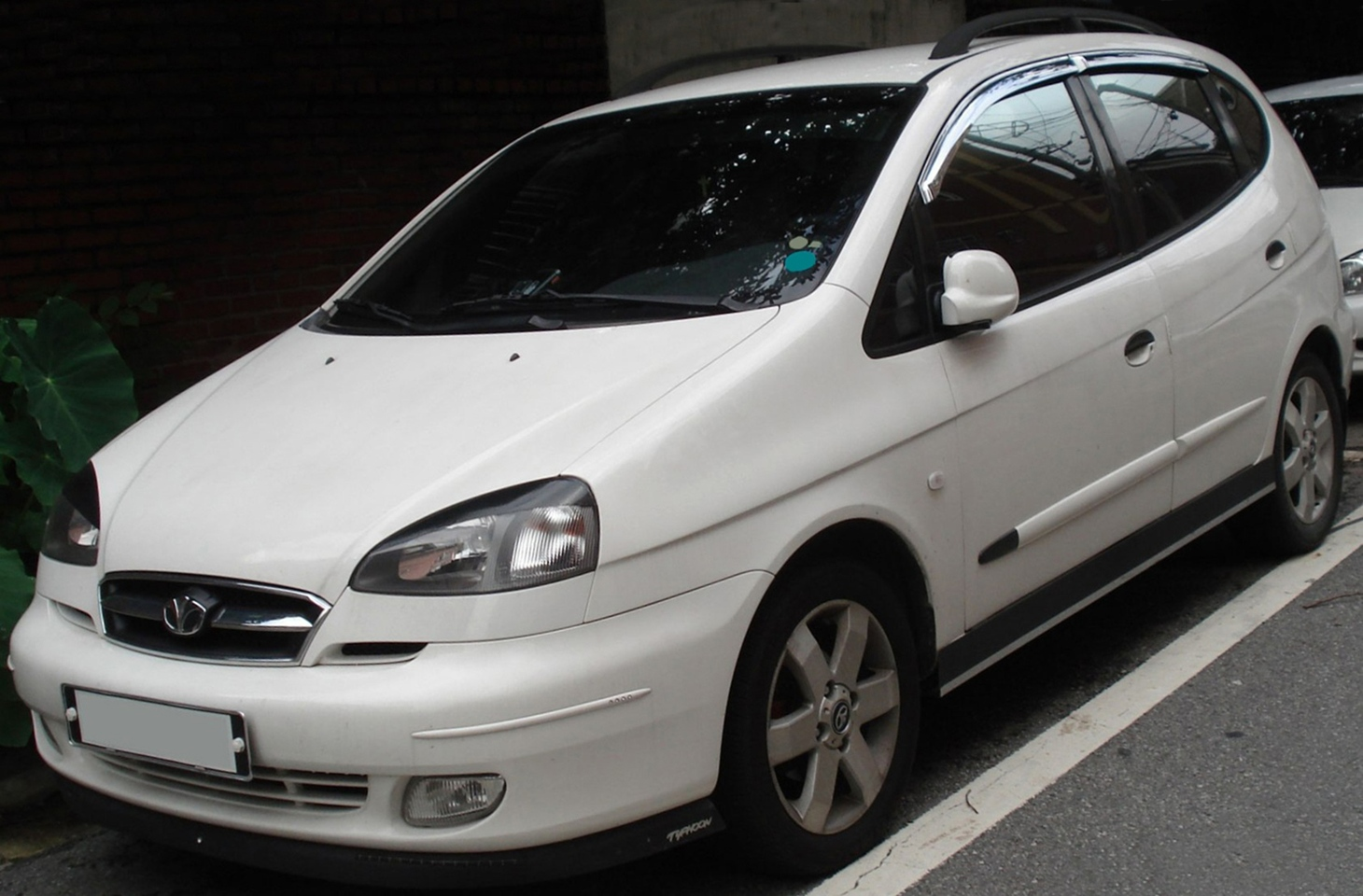 Daewoo New Rezzo